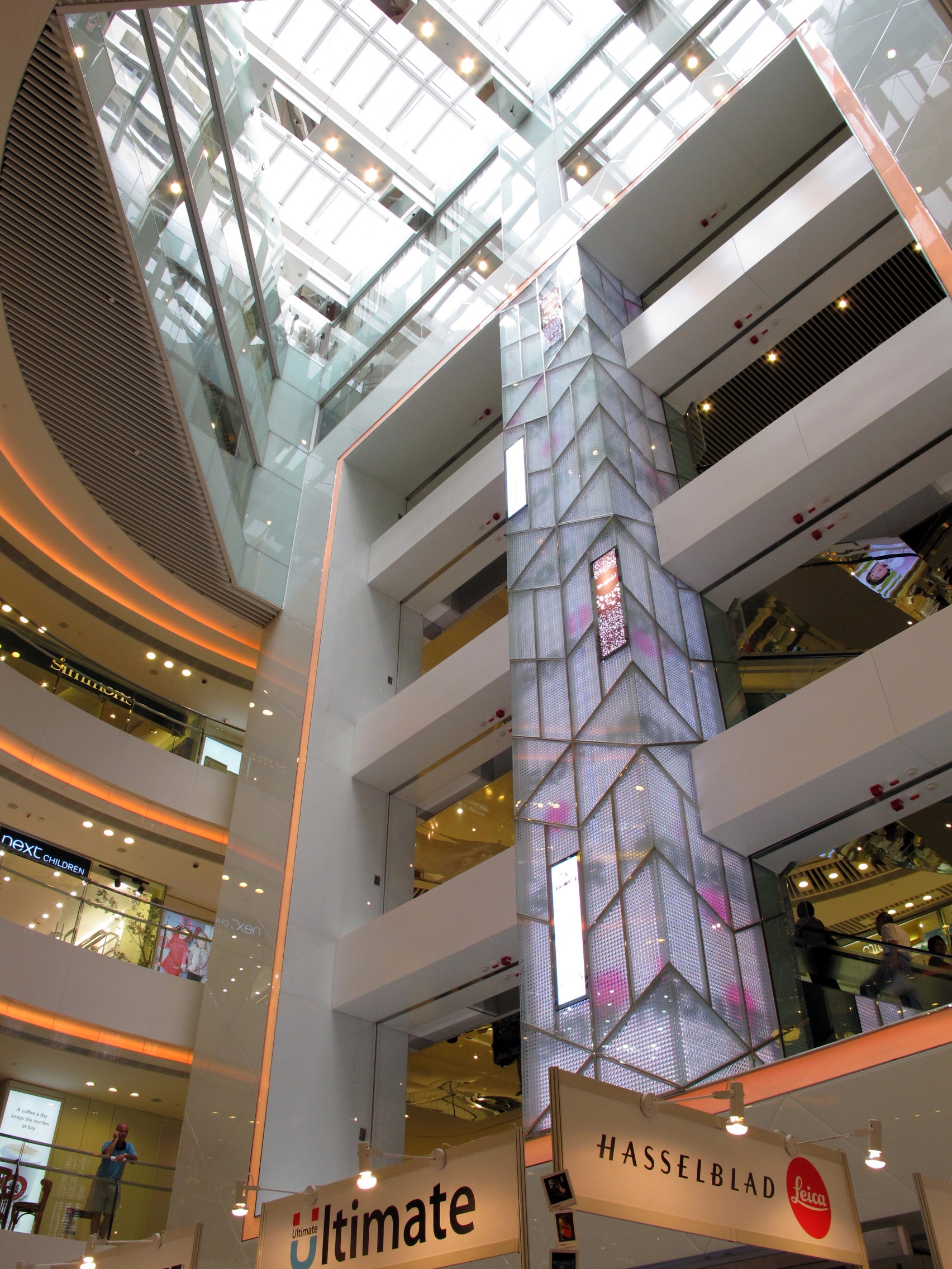 Windsor House Void 皇室堡